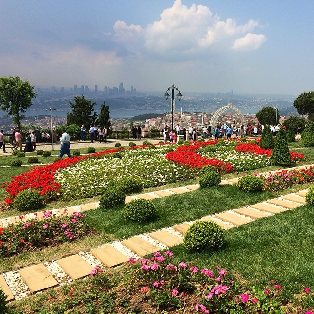 camlica #hill #istanbul #turkey #cloud #flower #sky #tourism